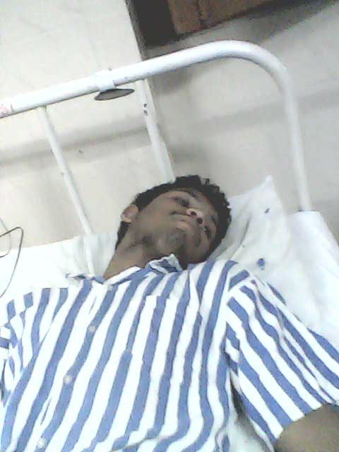 Hospital Patient